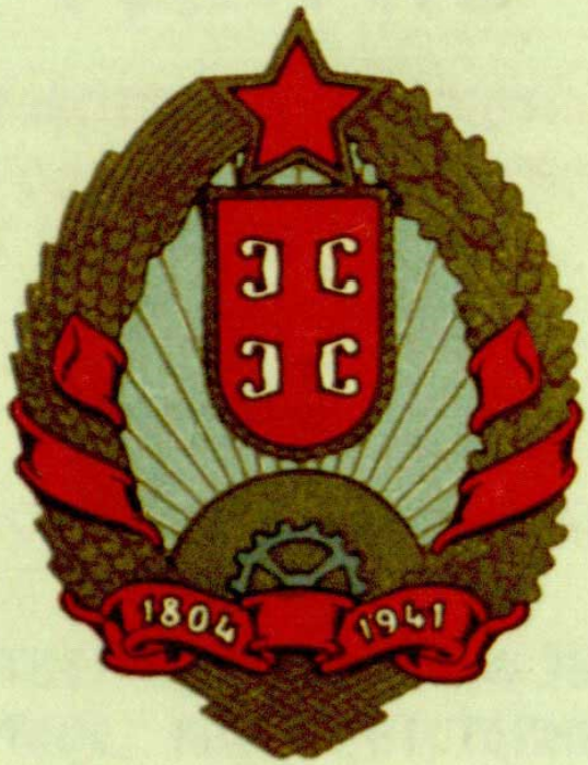 State Coat of Arms of the People's Republic of Serbia